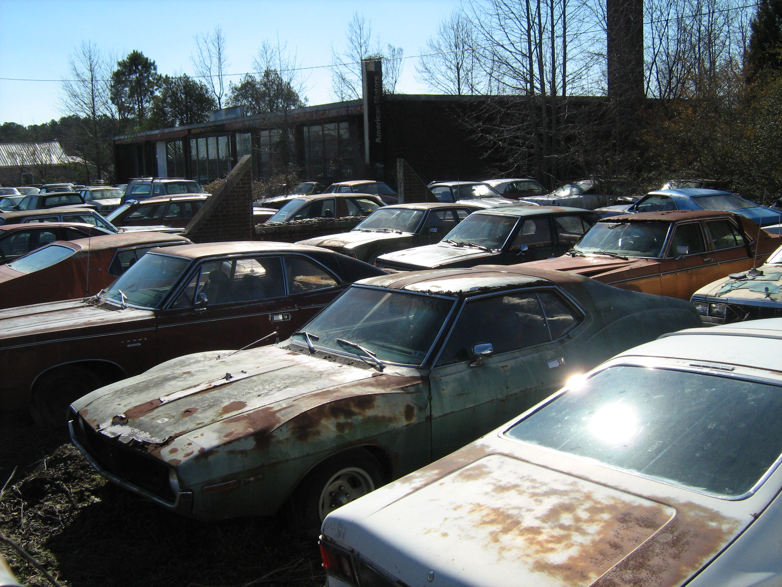 Collier Motors, an original automobile dealership that sold and serviced American Motors Corporation (AMC) vehicles. Located at 4713 US-117 Hwy, Pikeville, NC 27863